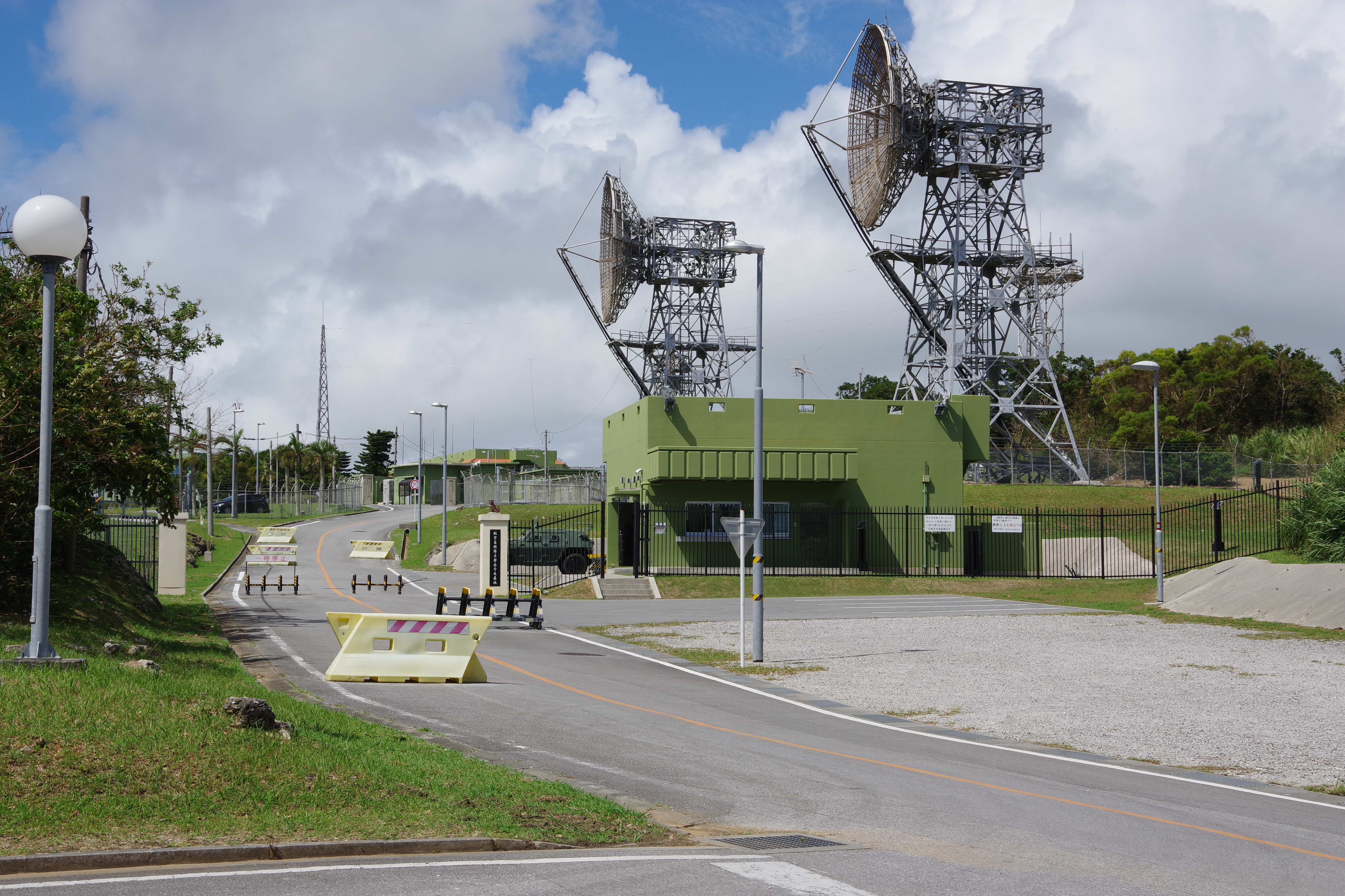 JASDF Yozadake Sub Base, on the top of Mount Yoza, Itoman, Okinawa Prefecture, Japan